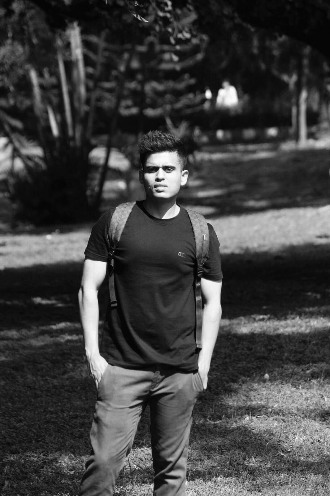 Smile all the way !